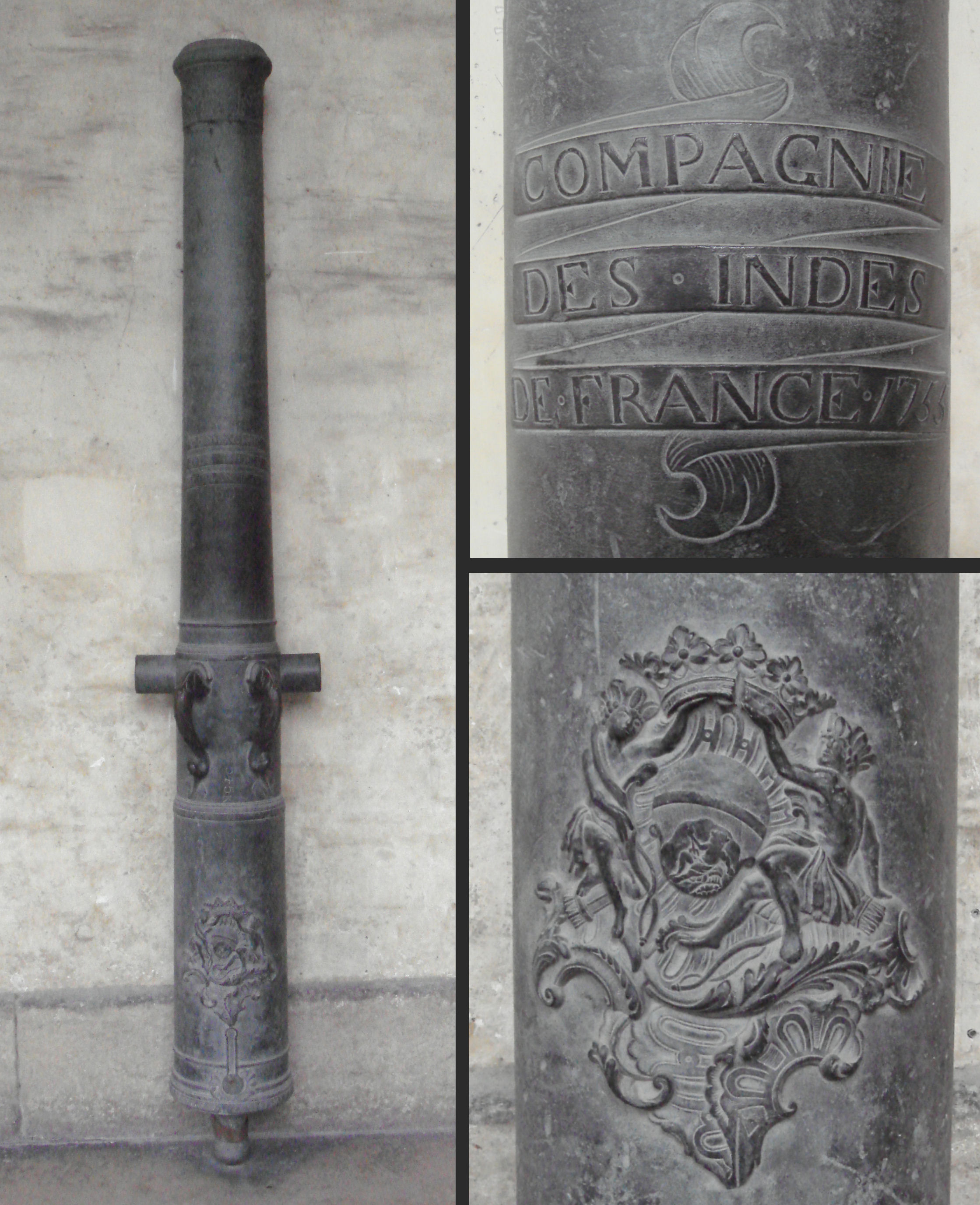 French_East_Indies_Cannon_de_4_bronze_1755_Douai_84mm_237cm_545kg_iron_ball_2kg.